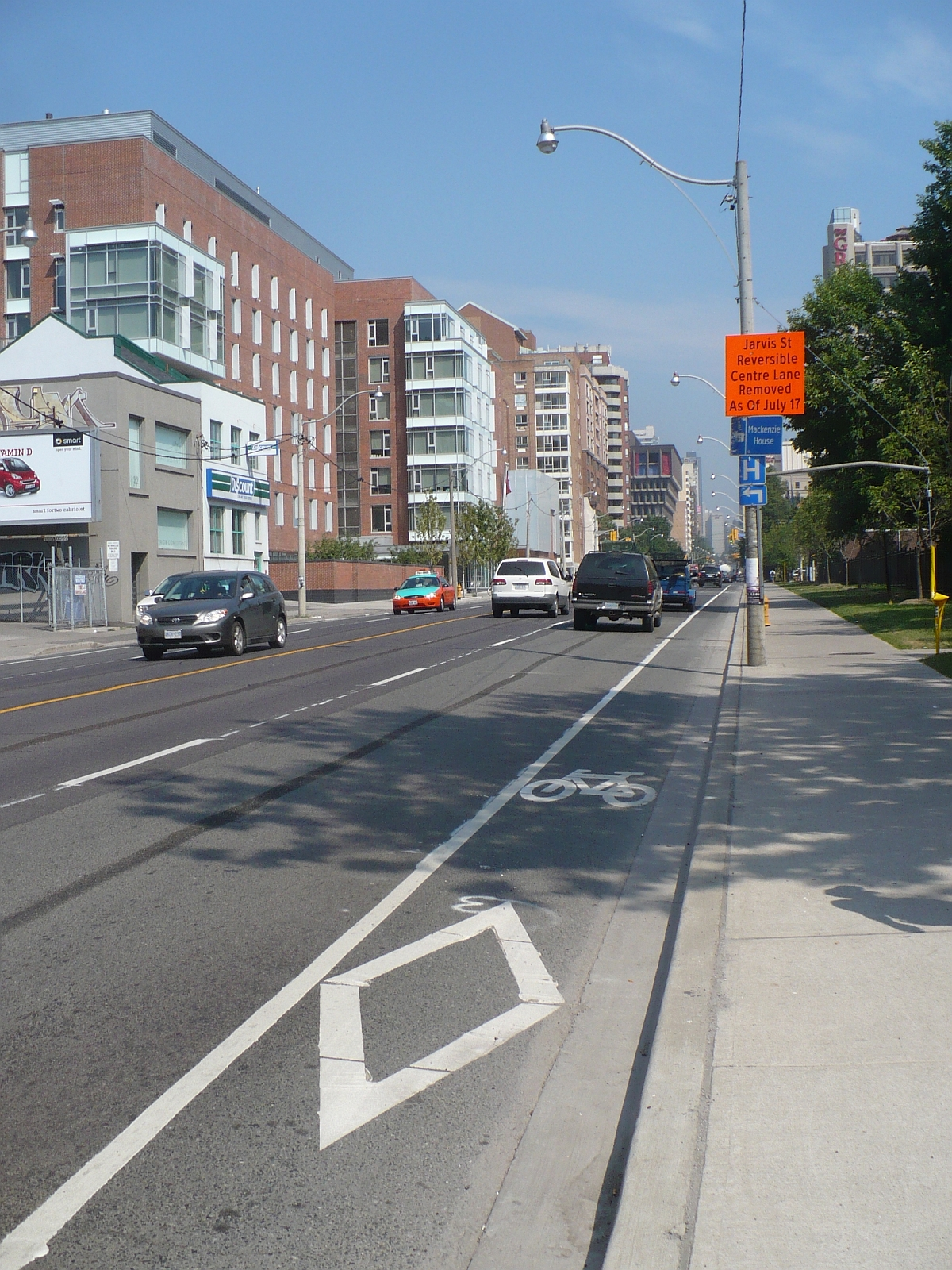 Bike lanes were created in 2010 on Jarvis Street, Toronto